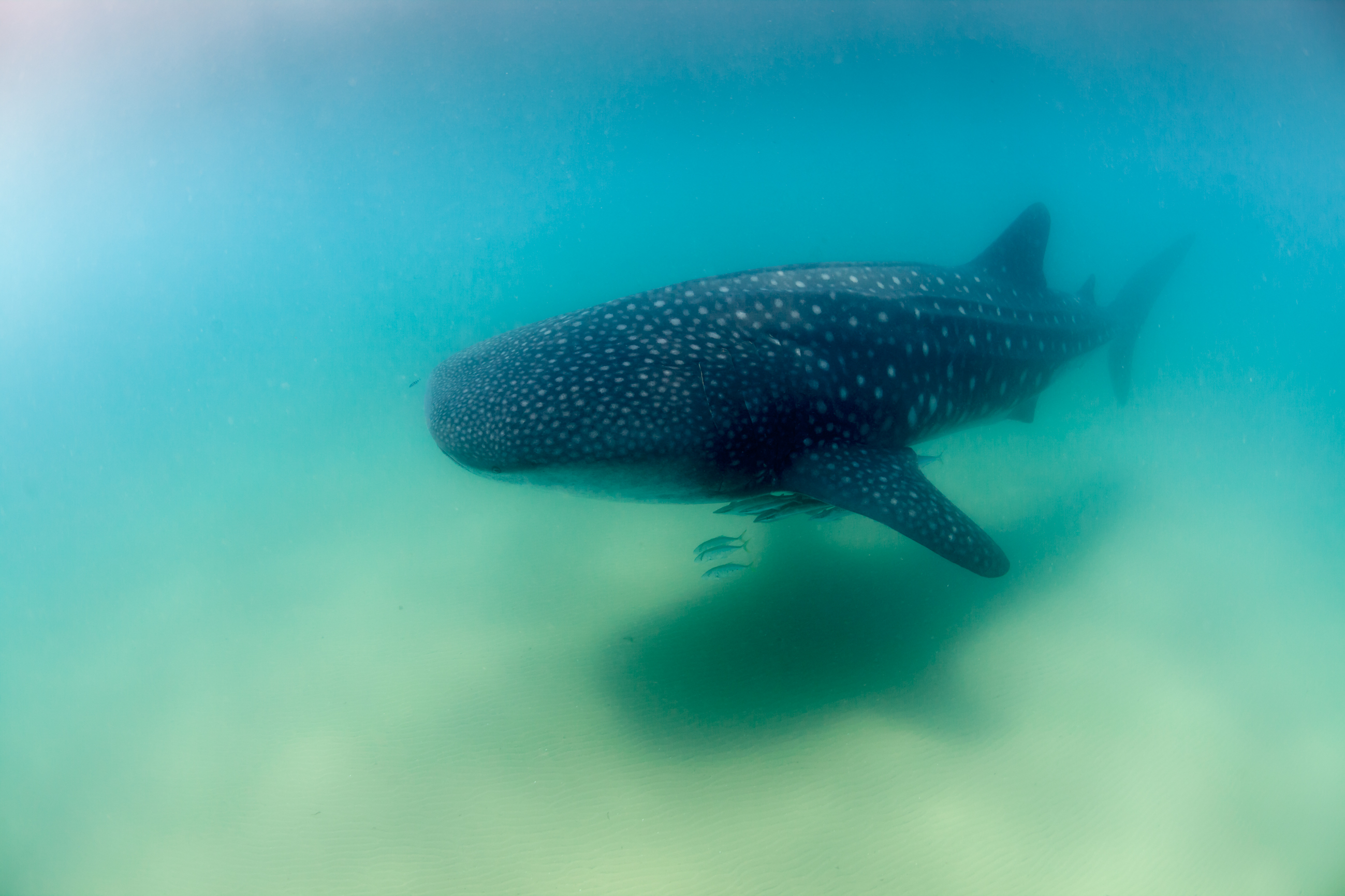 A whale shark swimming near the sandy bottom of the Indian Ocean, shot off the East Coast of Africa. The shark has a number of remoras and king fish swimming under its body.